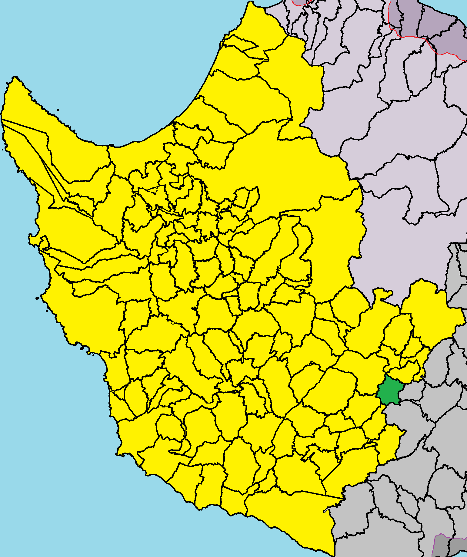 Kidasi in Paphos District.